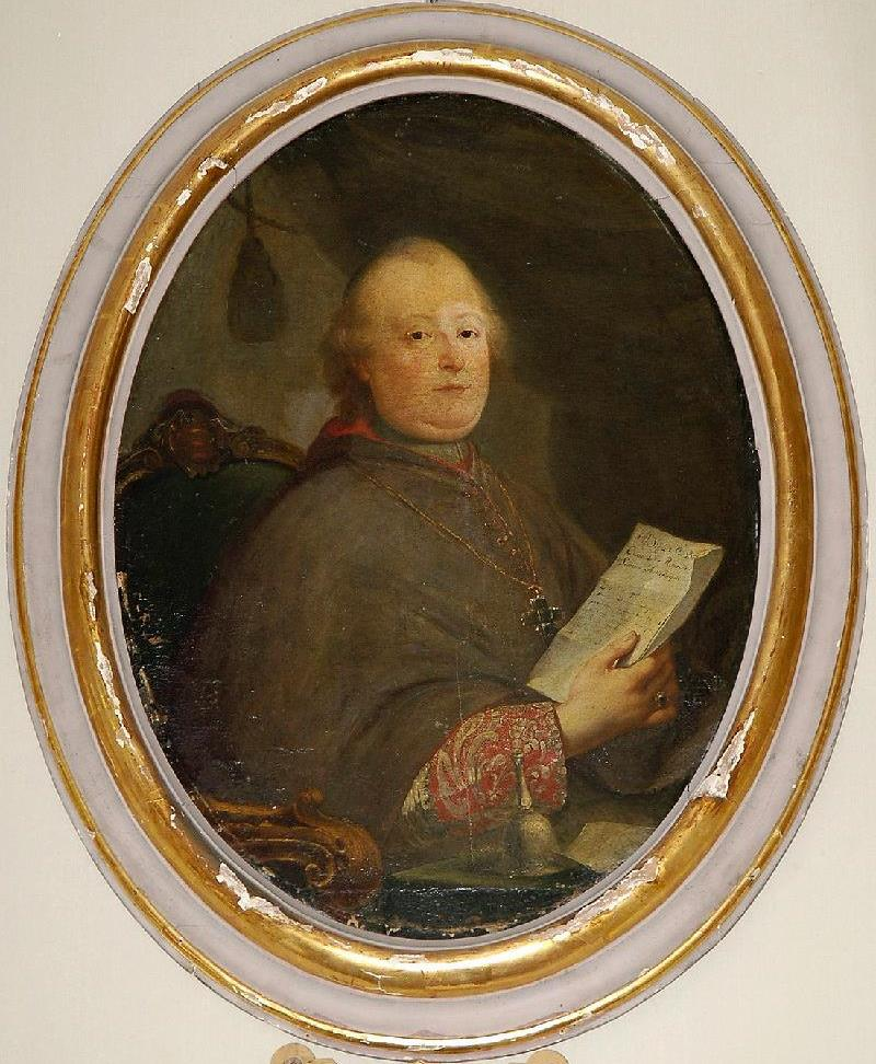 Giovanni Lercari, archbishop of Genoa